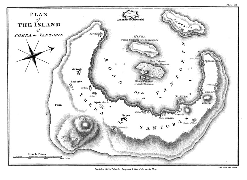 Historic map of the Greek Island of Santorini by Guillaume-Antoine Olivier in 1801